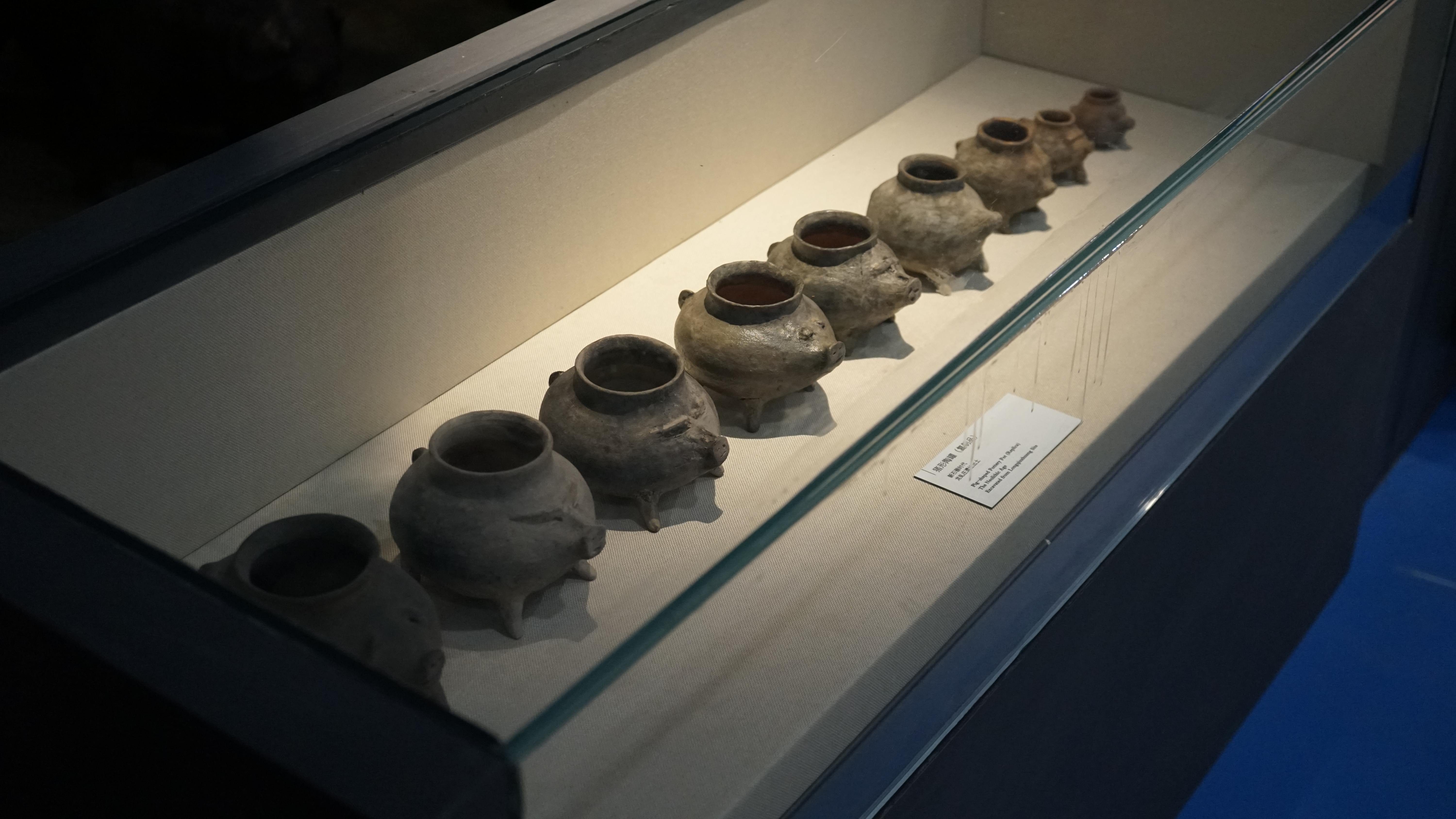 Pig-shaped Pottery Pots (Replica). Neolithic Age. Excavated from Longqiuzhuang Site.